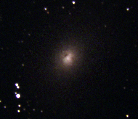 Taken on the James Gregory telescope in St. Andrews, Scotland.